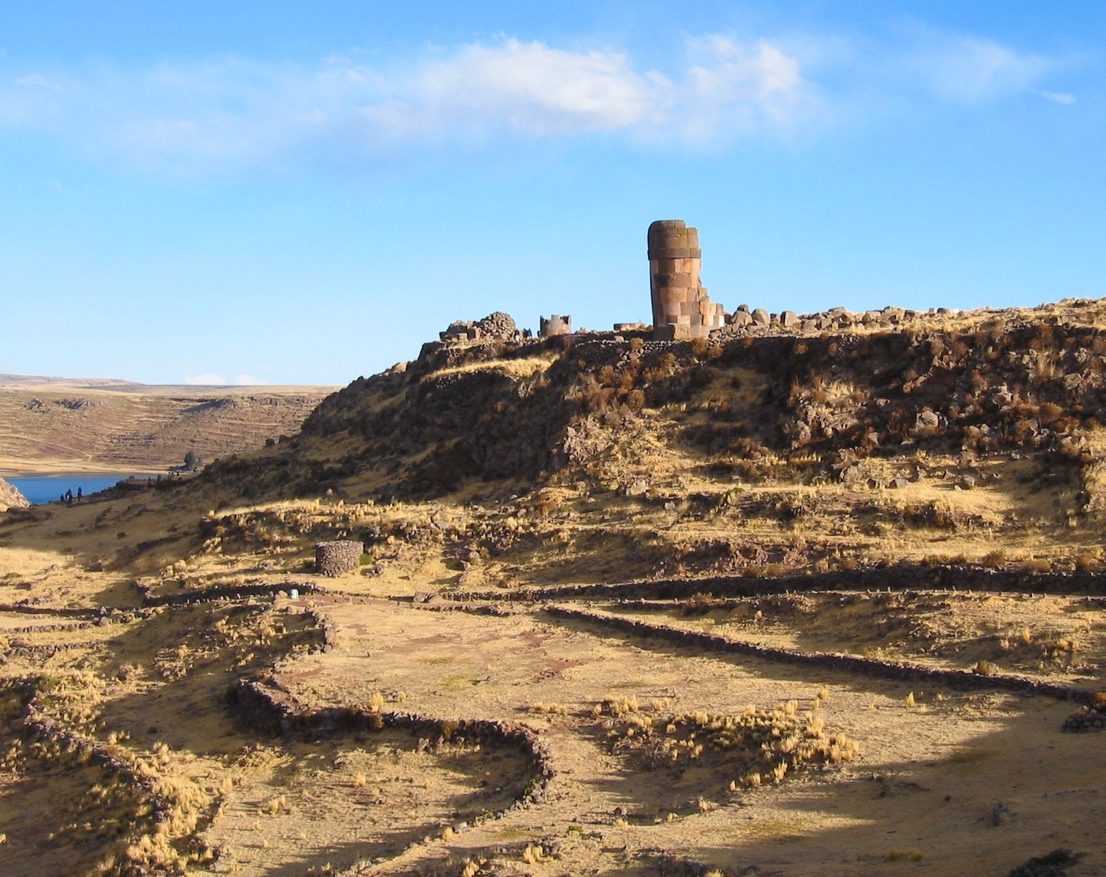 The largest chullpa on the Sillustani site near Puno, Peru. Taken pinga 2003.